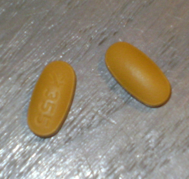 Myrbetriq 50 mg both sides